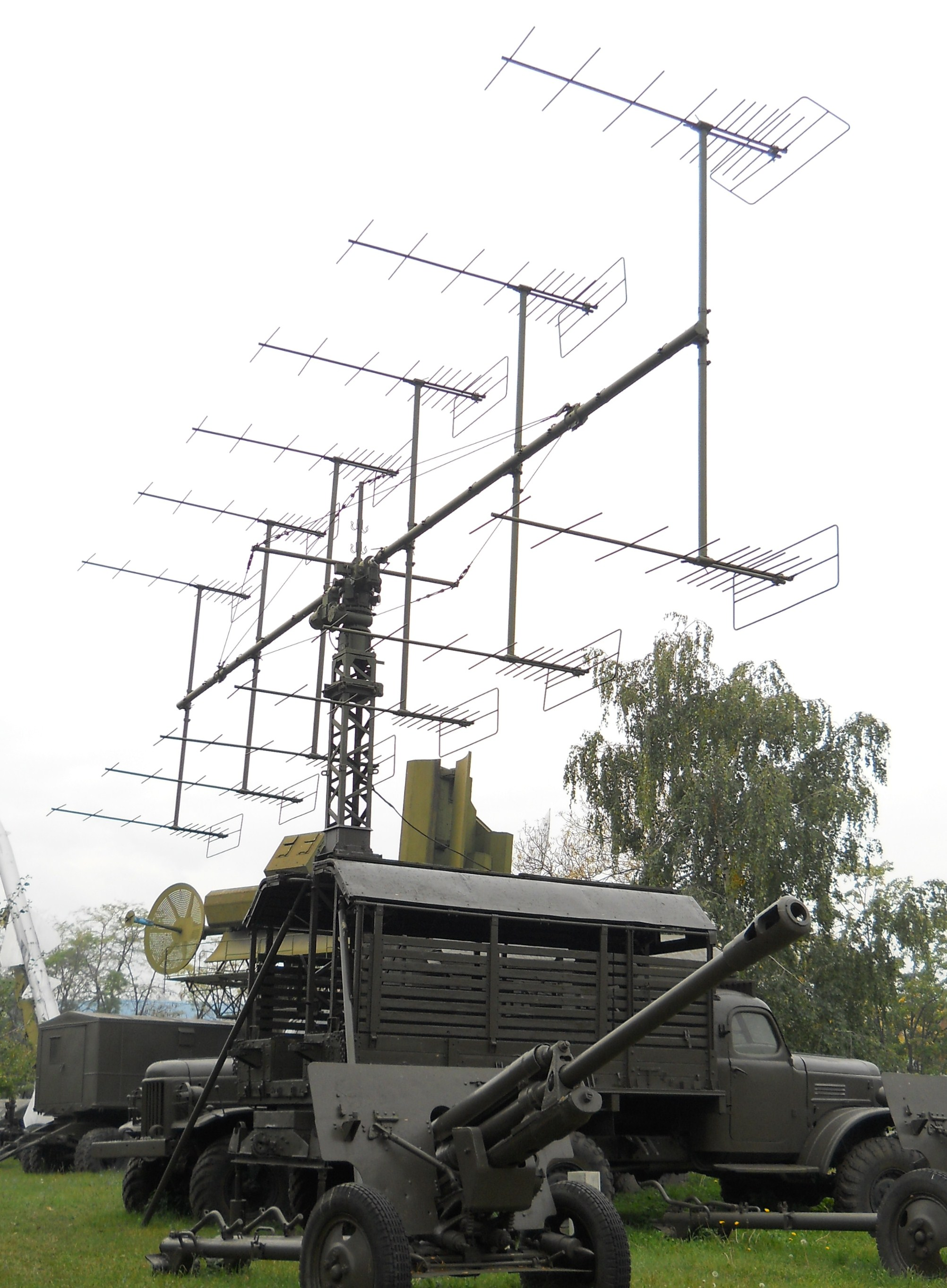 P-18 radar in the National Museum of Military History, Bulgaria.